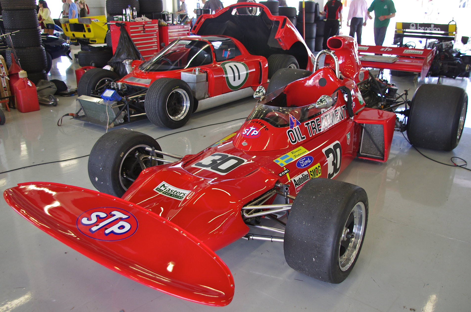 Silverstone Classic, 2012